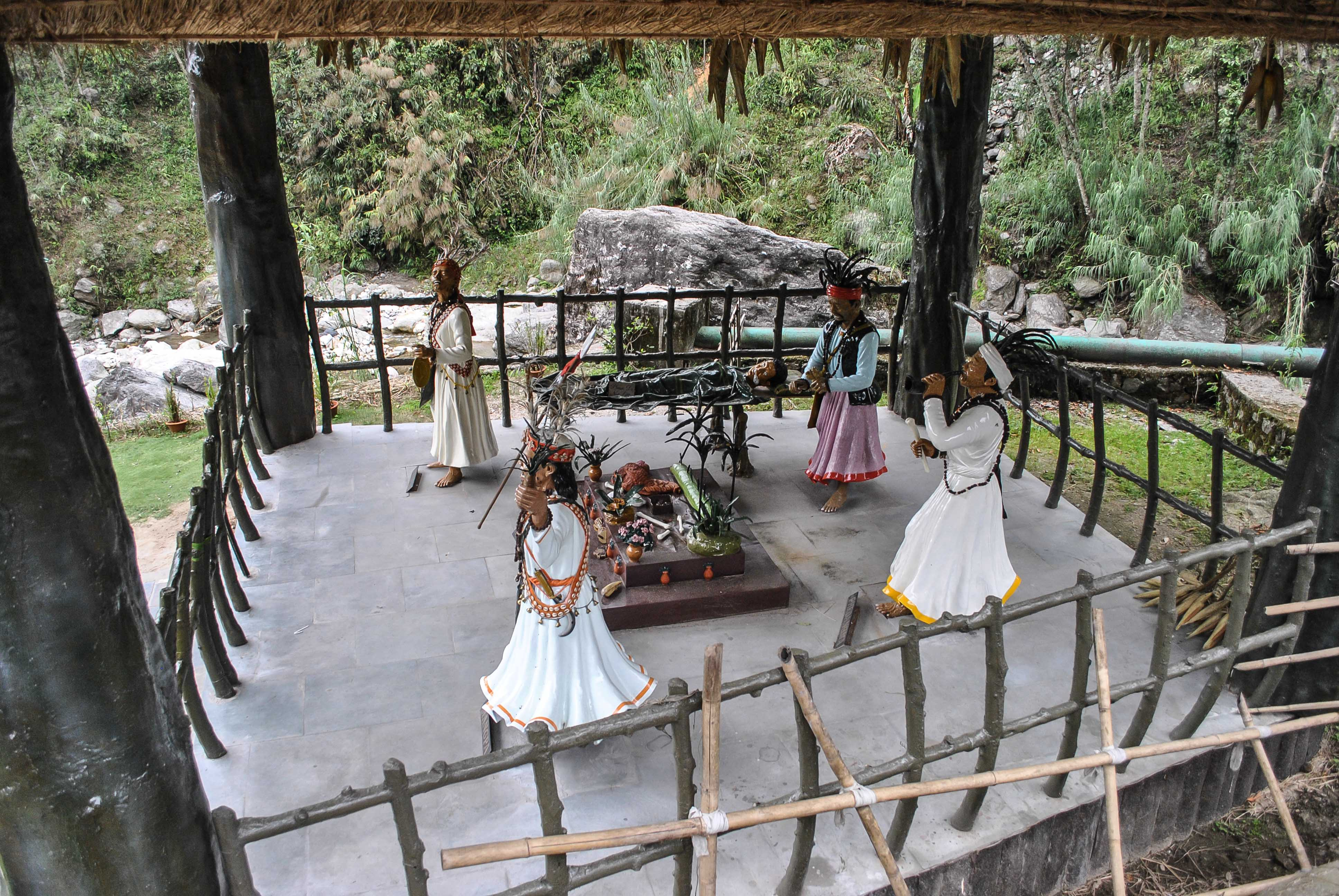 Images from 2010 Sikkim tour